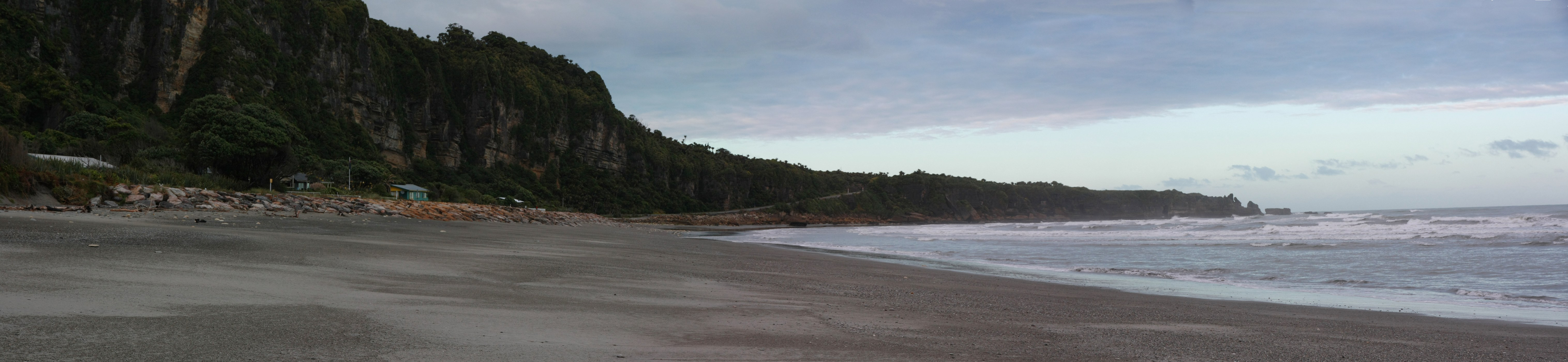 Punakaiki community in New Zealand, as seen from the beach with Pancake Rocks in the far background